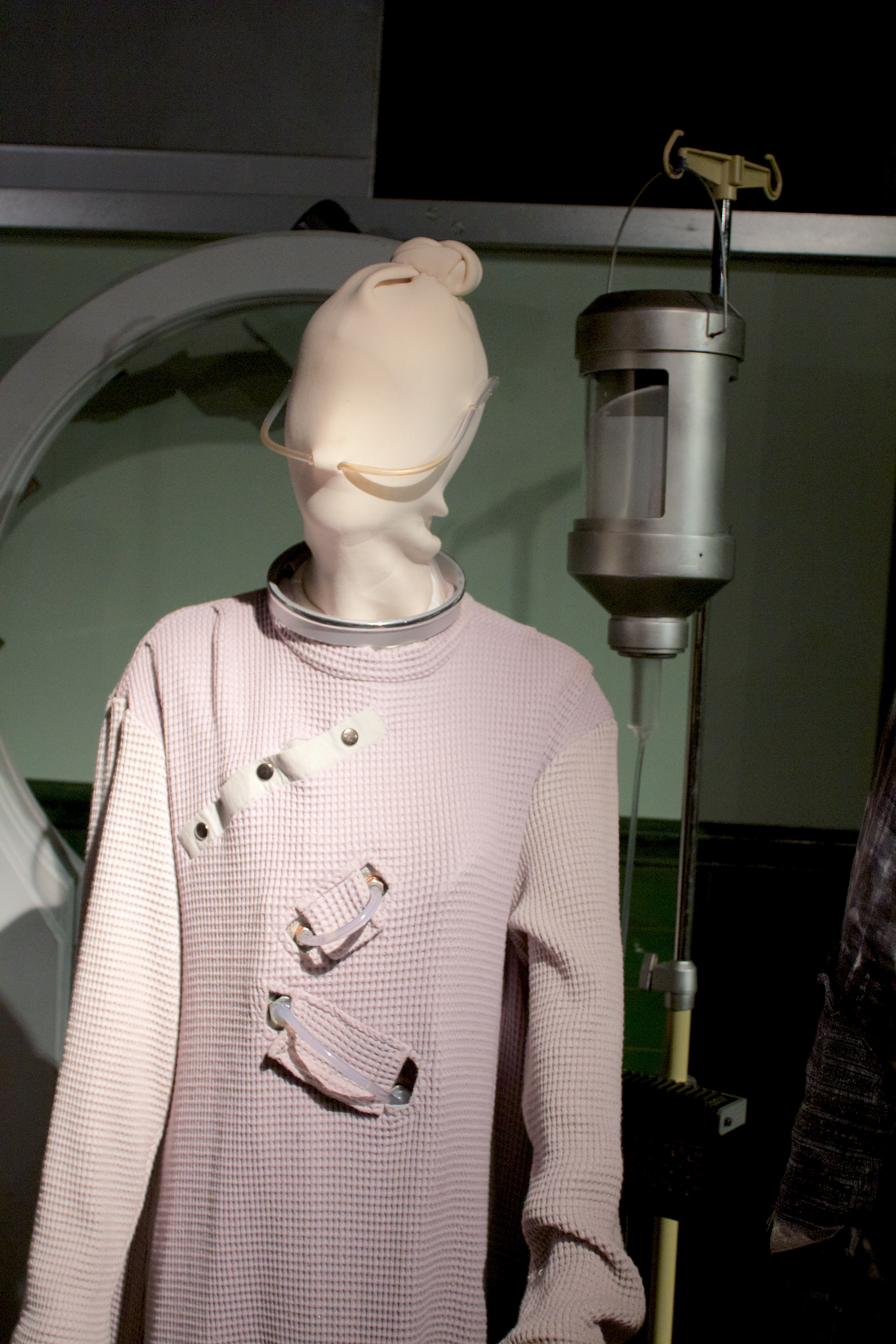 IMG_8632 Doctor Who Experience series 10